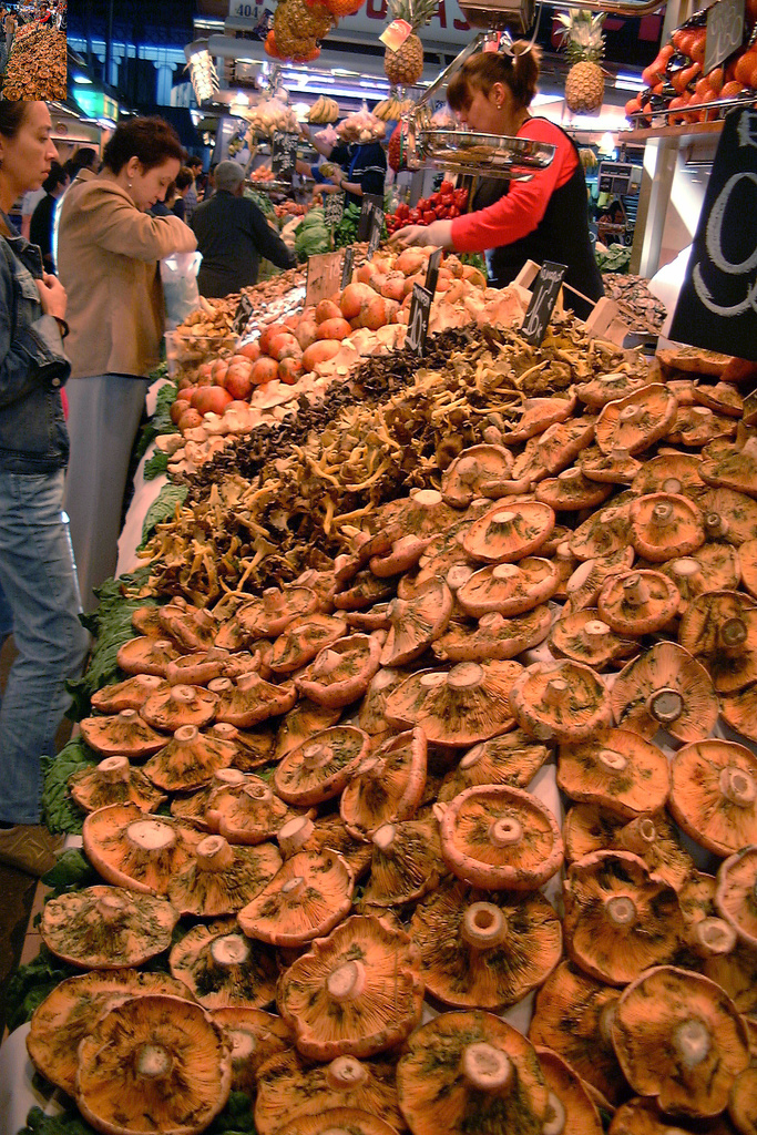 Rovellons (lactarius deliciosus), Ceps (boletus edulus), Oysters and other. Next time I go to Barcelona I will self-cater!